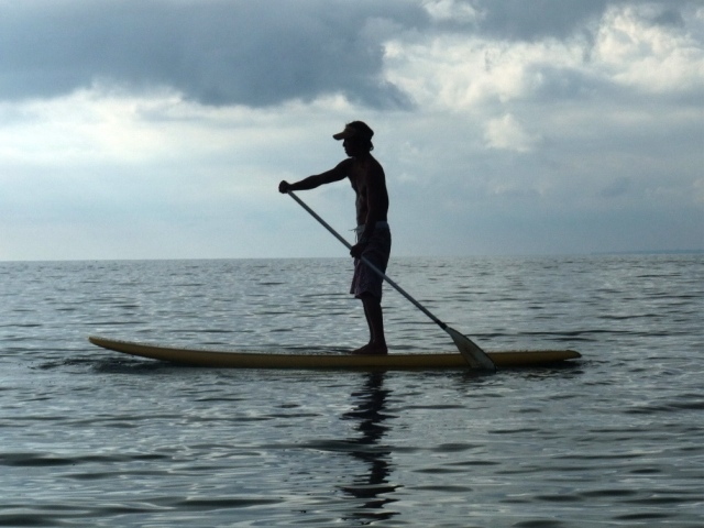 Stand up paddle surfing in Okinawa